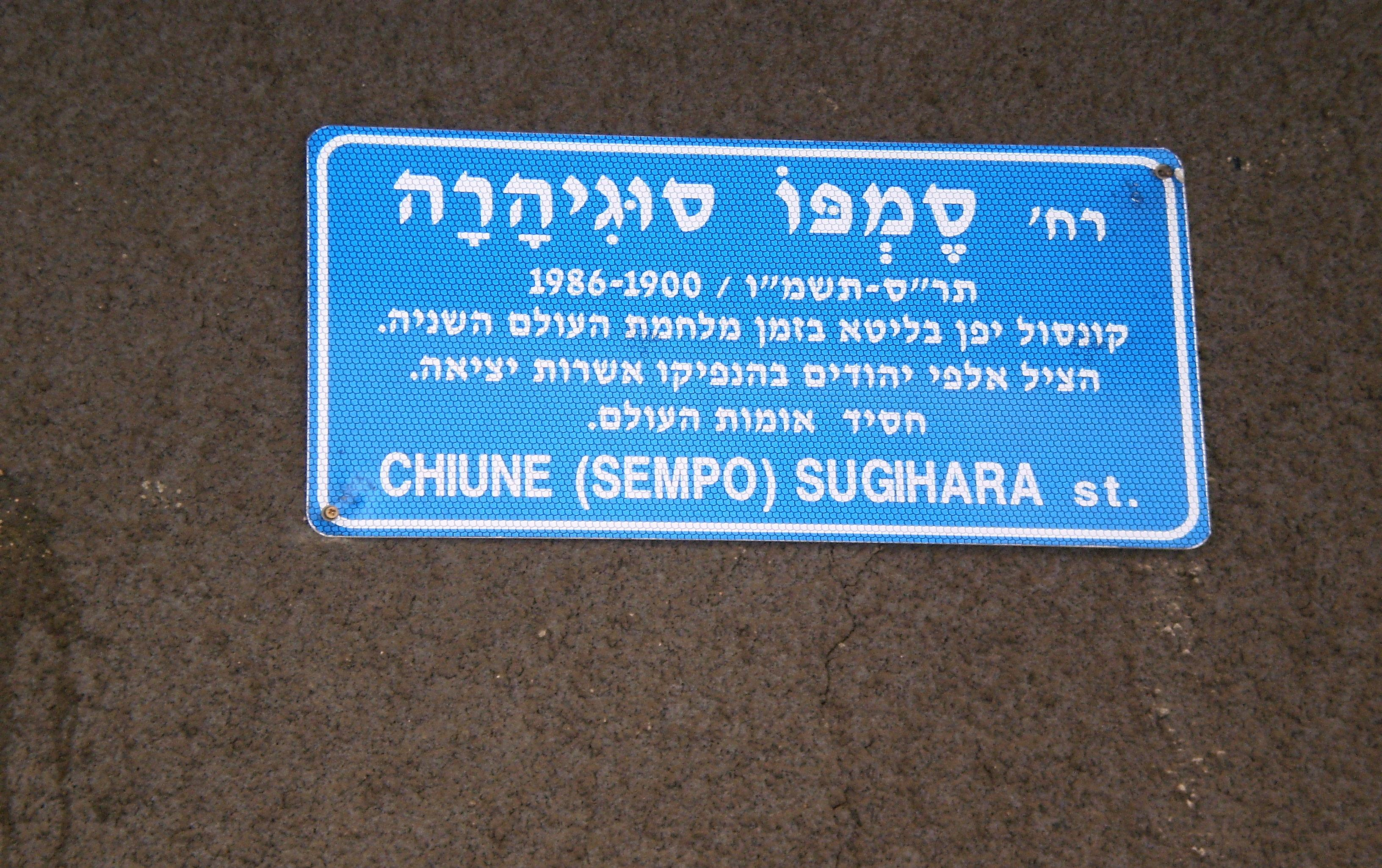 Sugihara street, Jaffa